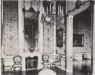 Writing Room in the baroque part of the Royal Castle of Budapest.